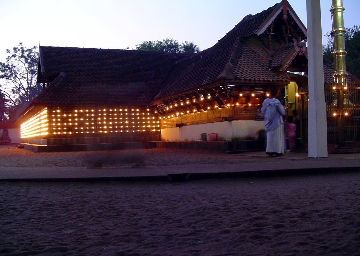 Illuminated temple in the evening